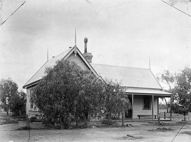 Image of Drummartin State School in Drummartin, Victoria, Australia taken in 1905. From the Museums Victoria collections. image is in public domain.